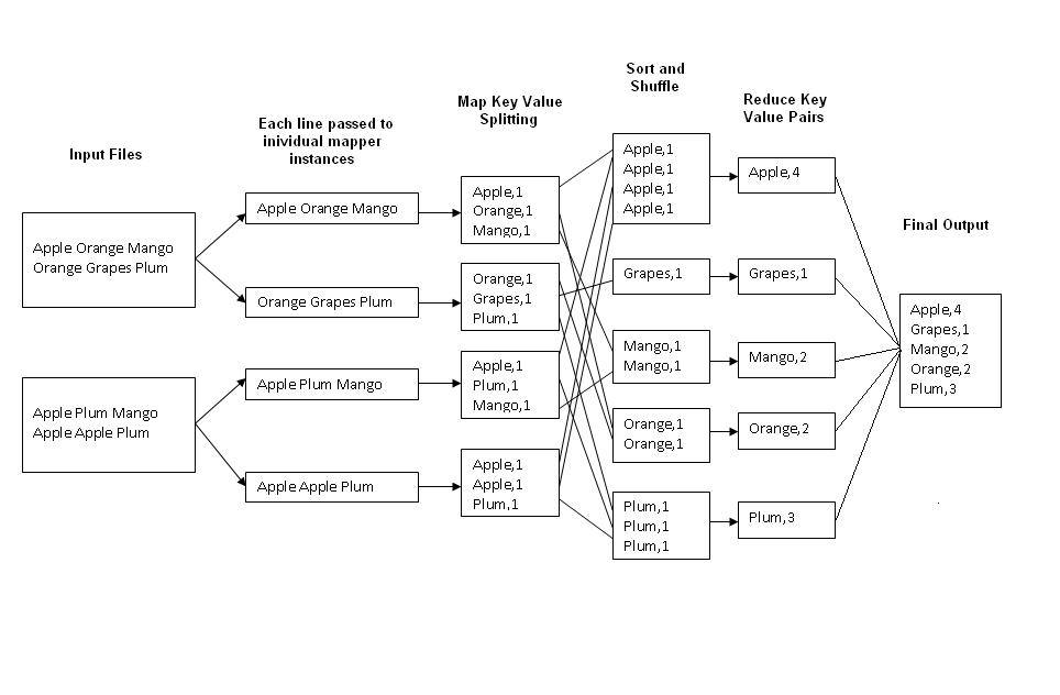 mapreduce